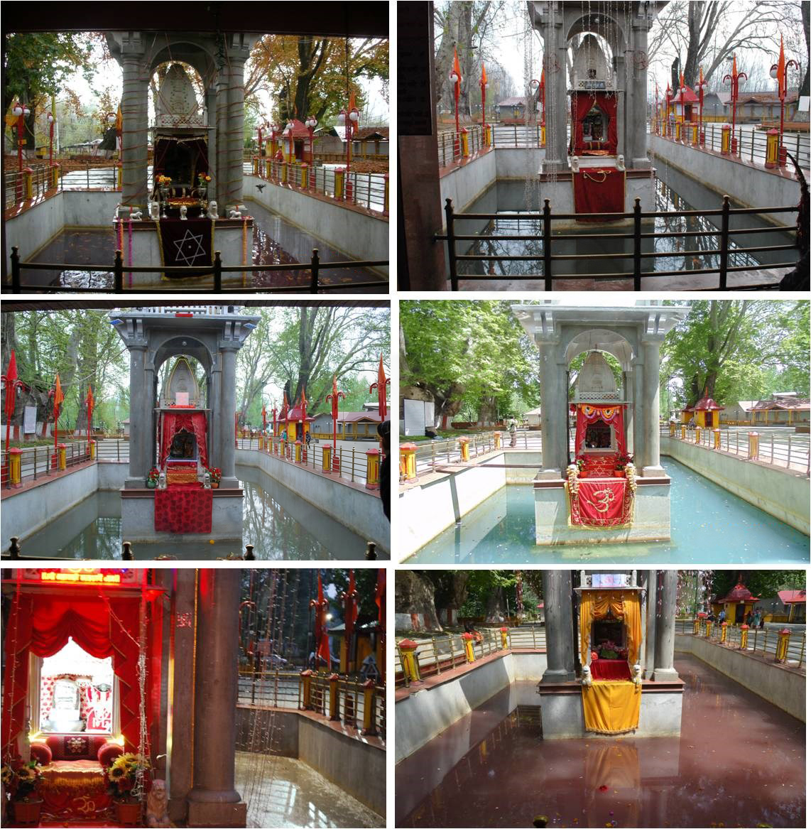 The spring at Mata Kheer Bhawani, Kashmir. A collage of shots